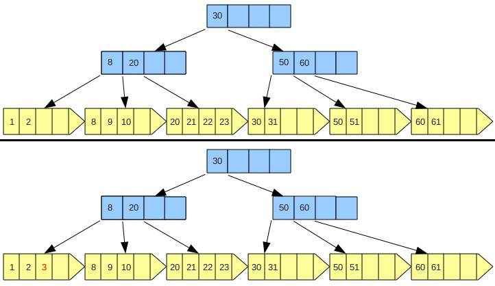 B+-tree insertion